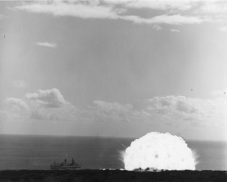 Operation "Sailor Hat", 1965. 500-ton TNT explosive charge is detonated in Shot "Charlie", April 1965. This was the second of three Operation "Sailor Hat" test explosions conducted on Kahoolawe Island, Hawaii, in February-June 1965. USS Atlanta (IX-304) is moored to the left of the blast, with her bow pointing to the left.